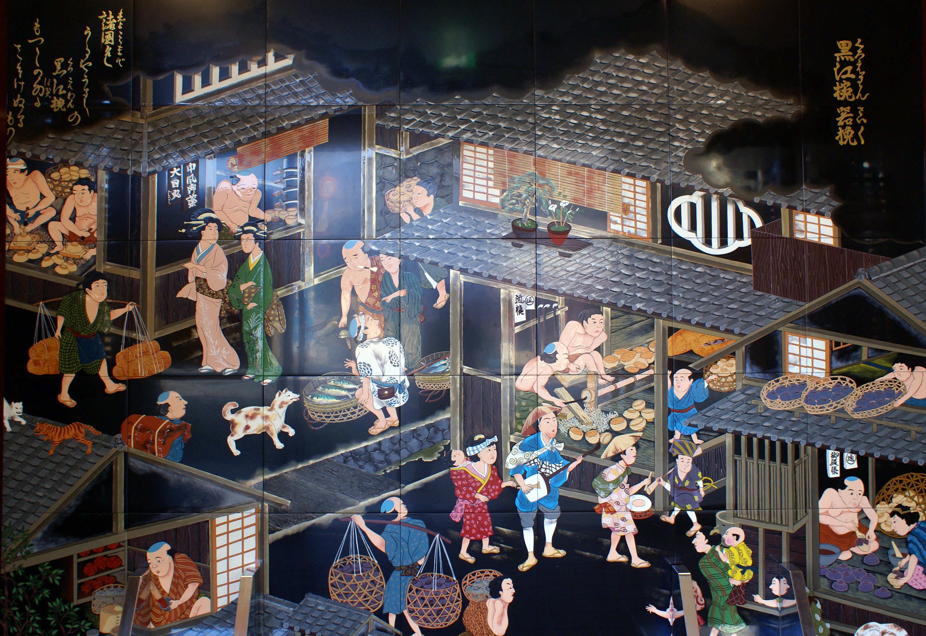 At Kuroe, Kainan, Wakayama prefecture, Japan